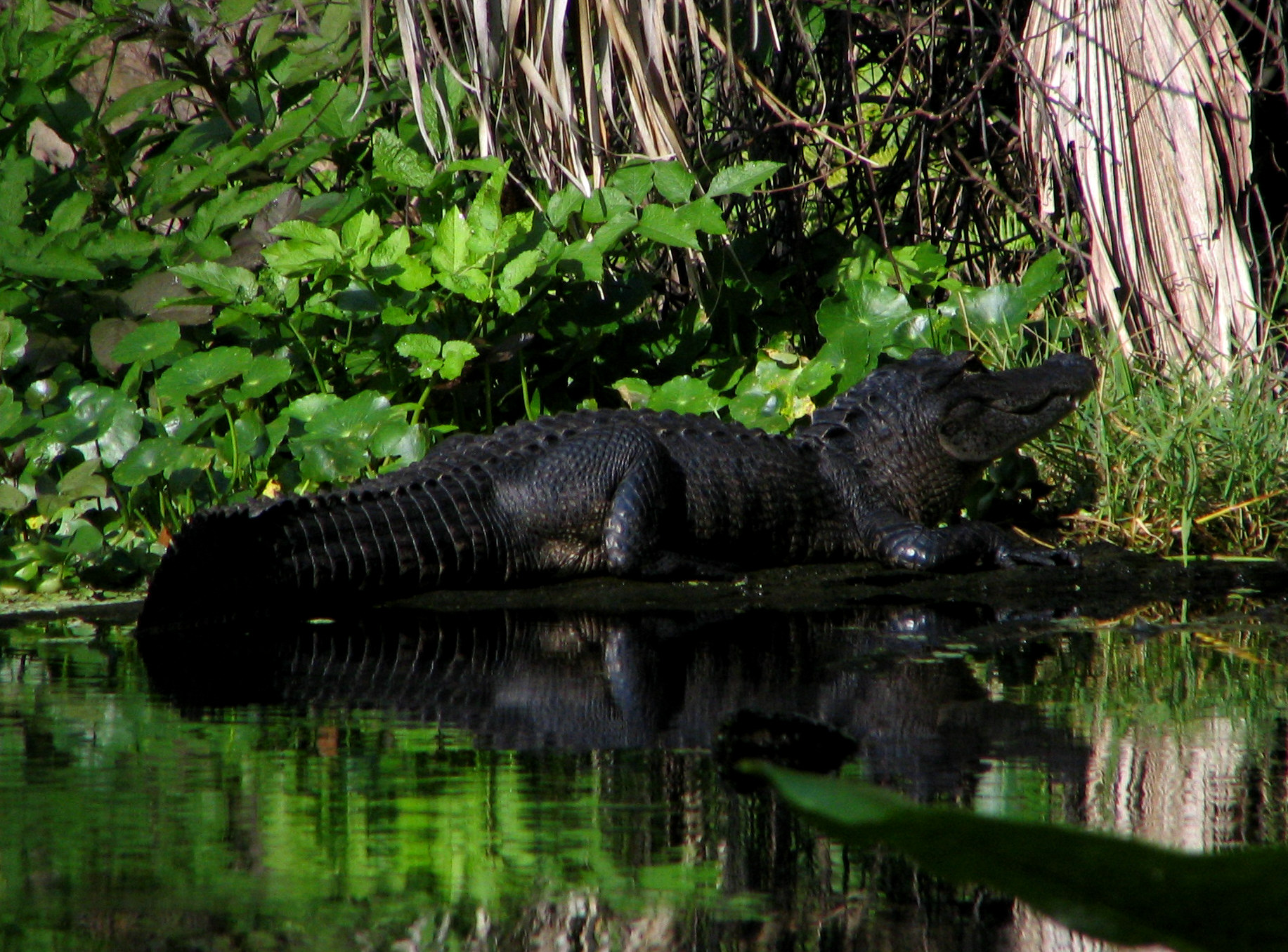 Wekiwa Springs State Park - Alligator. Taken by User:Mwanner, 16 January, 2007.